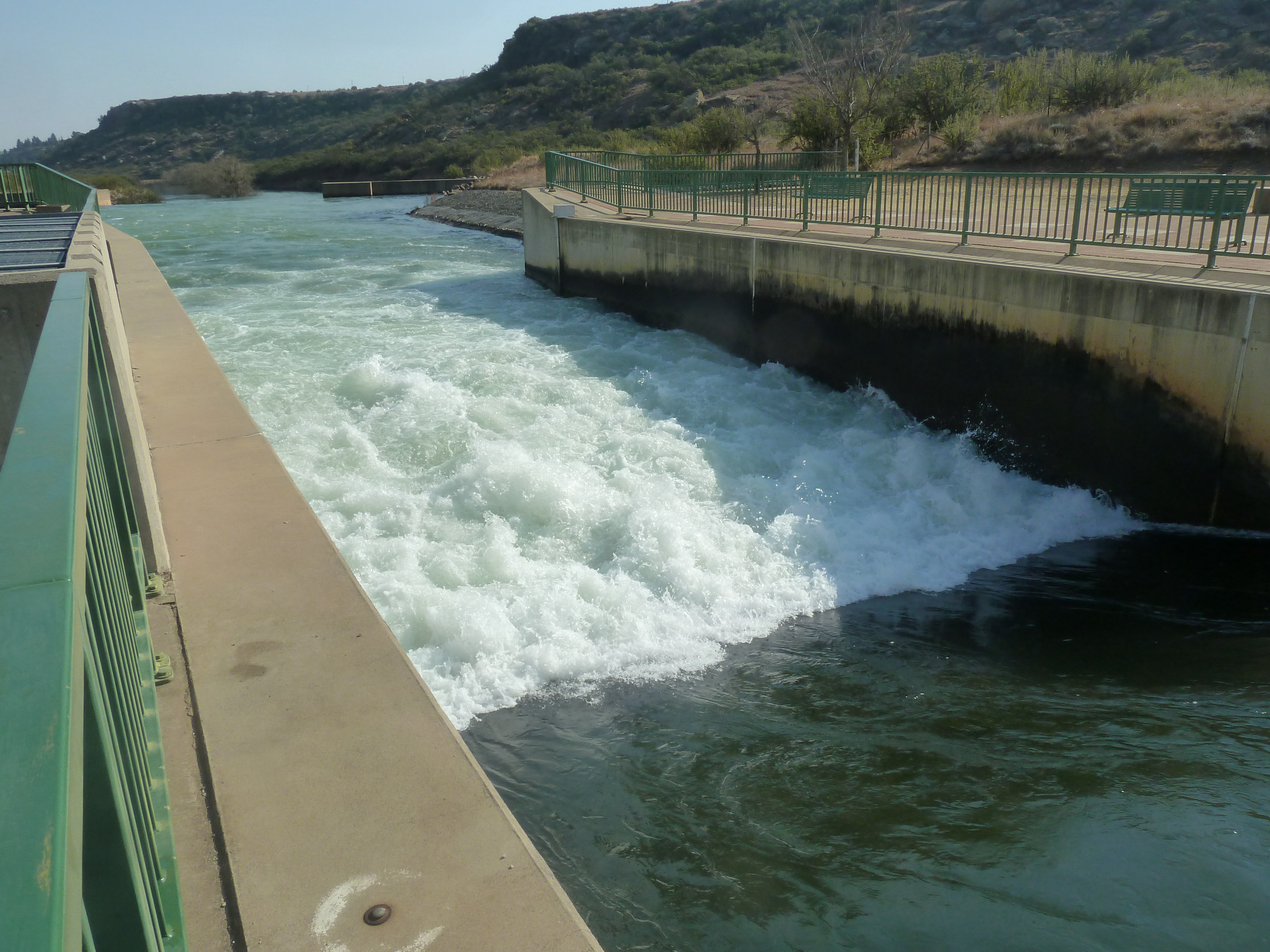 As River Outfall north of Clarens, eastern Free State, South Africa